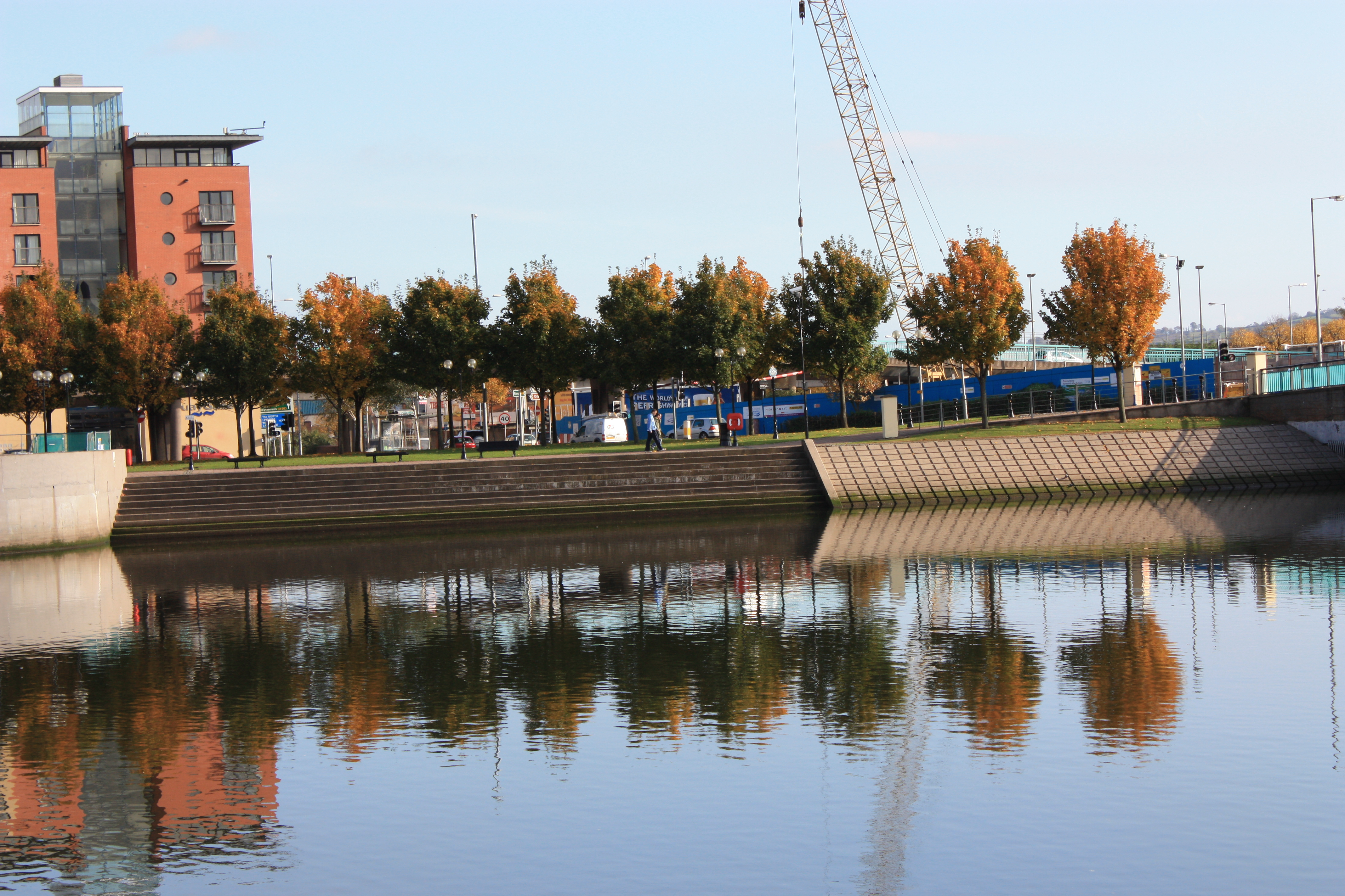 Queen's Quay (viewed from Donegall Quay), Belfast, Northern Ireland, October 2009